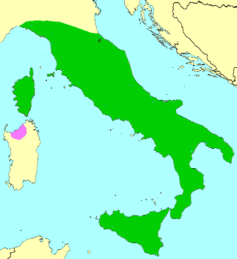 Distribution of Pelophylax bergeri